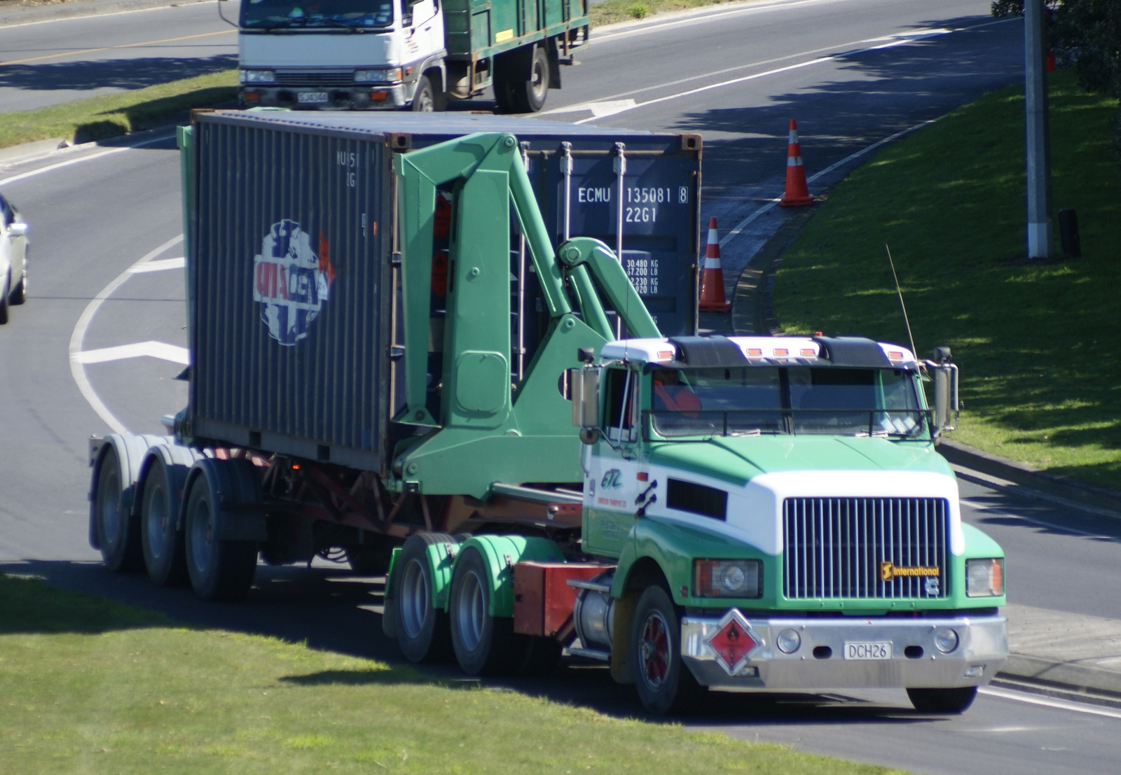 New Zealand Trucks